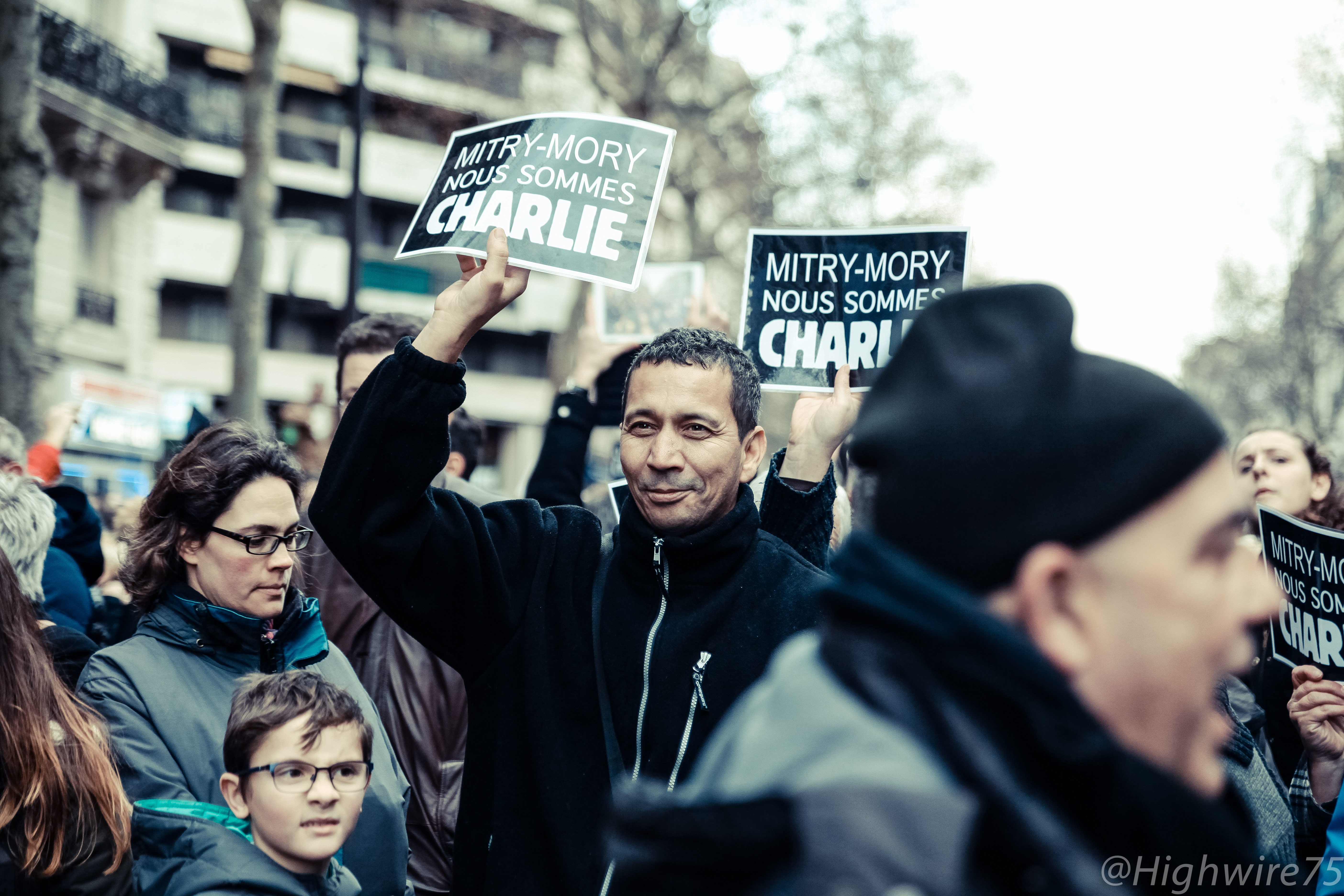 11 January 2015, Paris Publications: Paris rally in support of the victims of the 2015 Charlie Hebdo shooting, 11 January 2015.